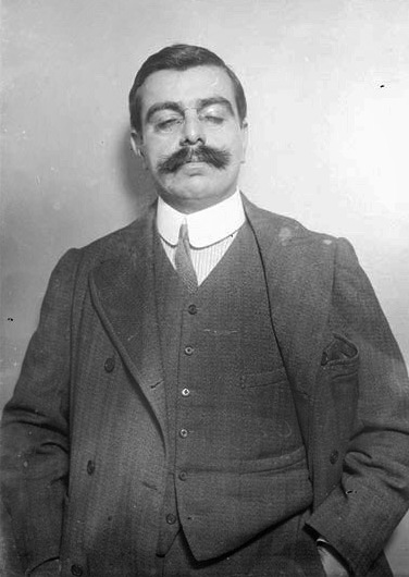 Aqa(Aga/Agha) Khan III, Imam of the Nizari Isma`ili Shi`i Islam, in Chigago.